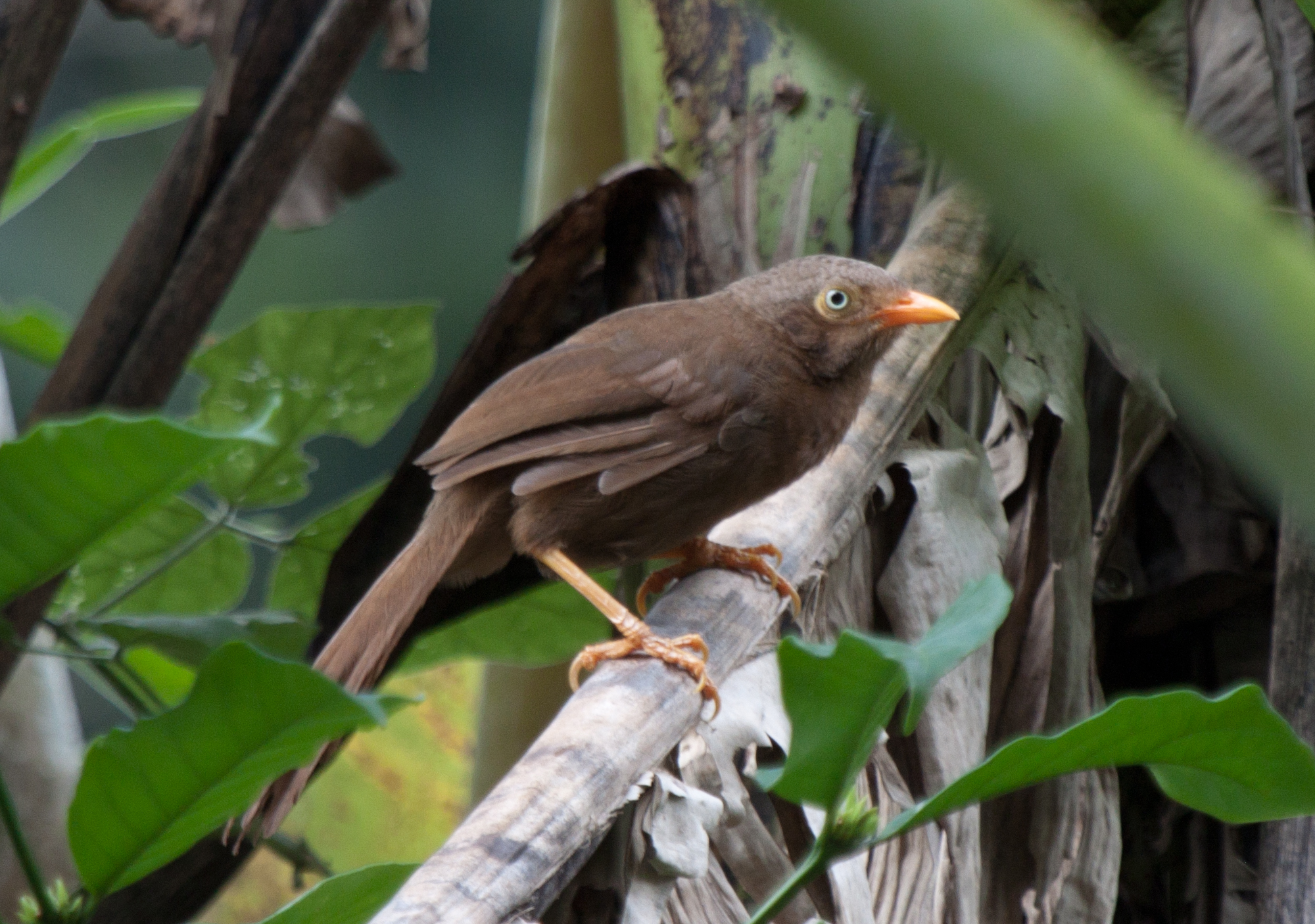 Not a great photo of this common, but difficult to photograph Sri Lanka endemic. Kelani Forest Reserve